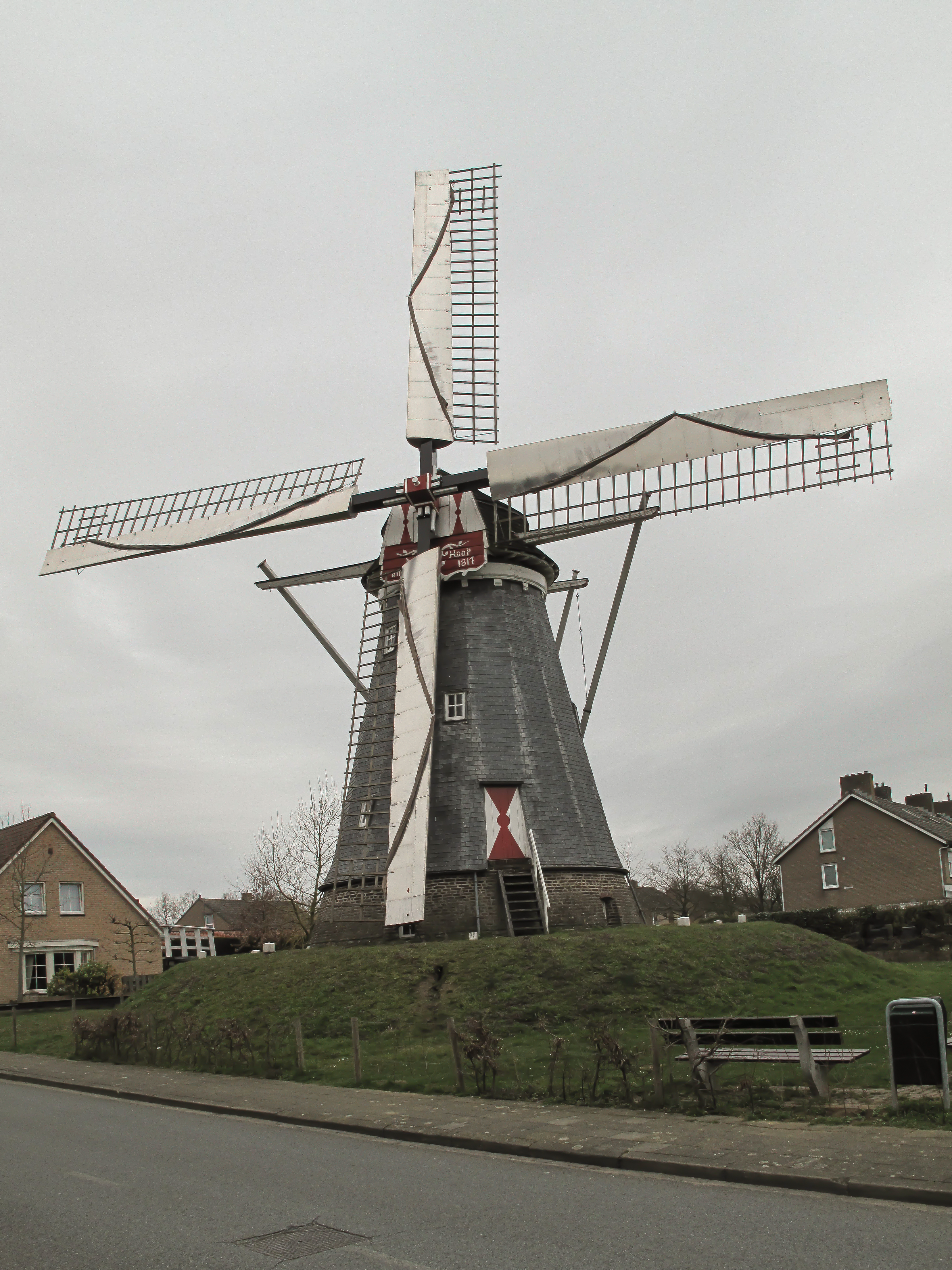 Horn, windmill: molen de Hoop